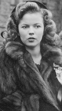 movie star Shirley Temple